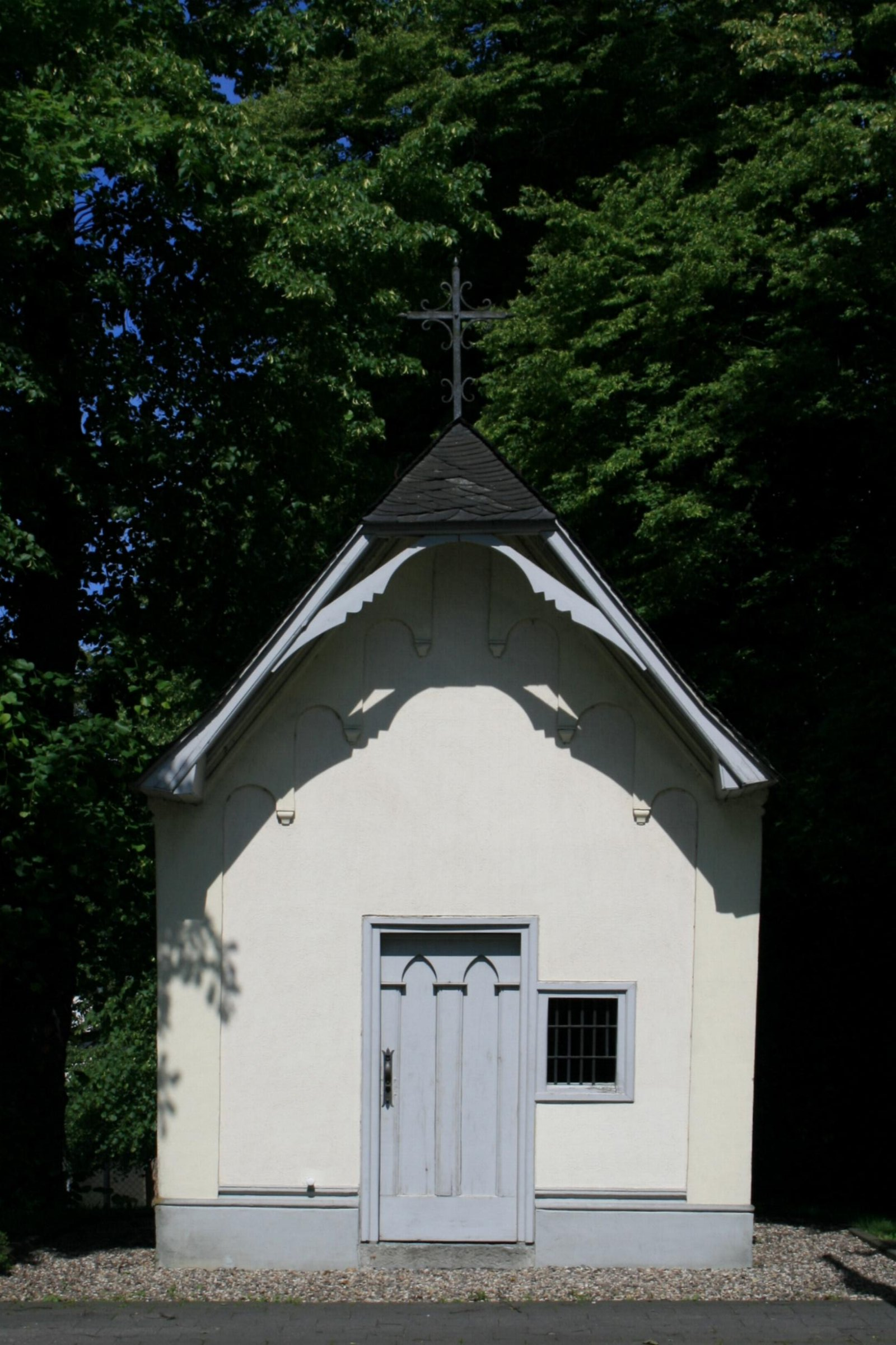 Cultural heritage monument No. K 035 in Mönchengladbach